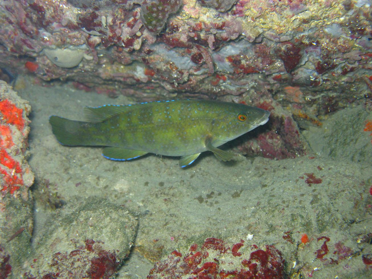 Labrus merula Photo taken in Liguria, Italy